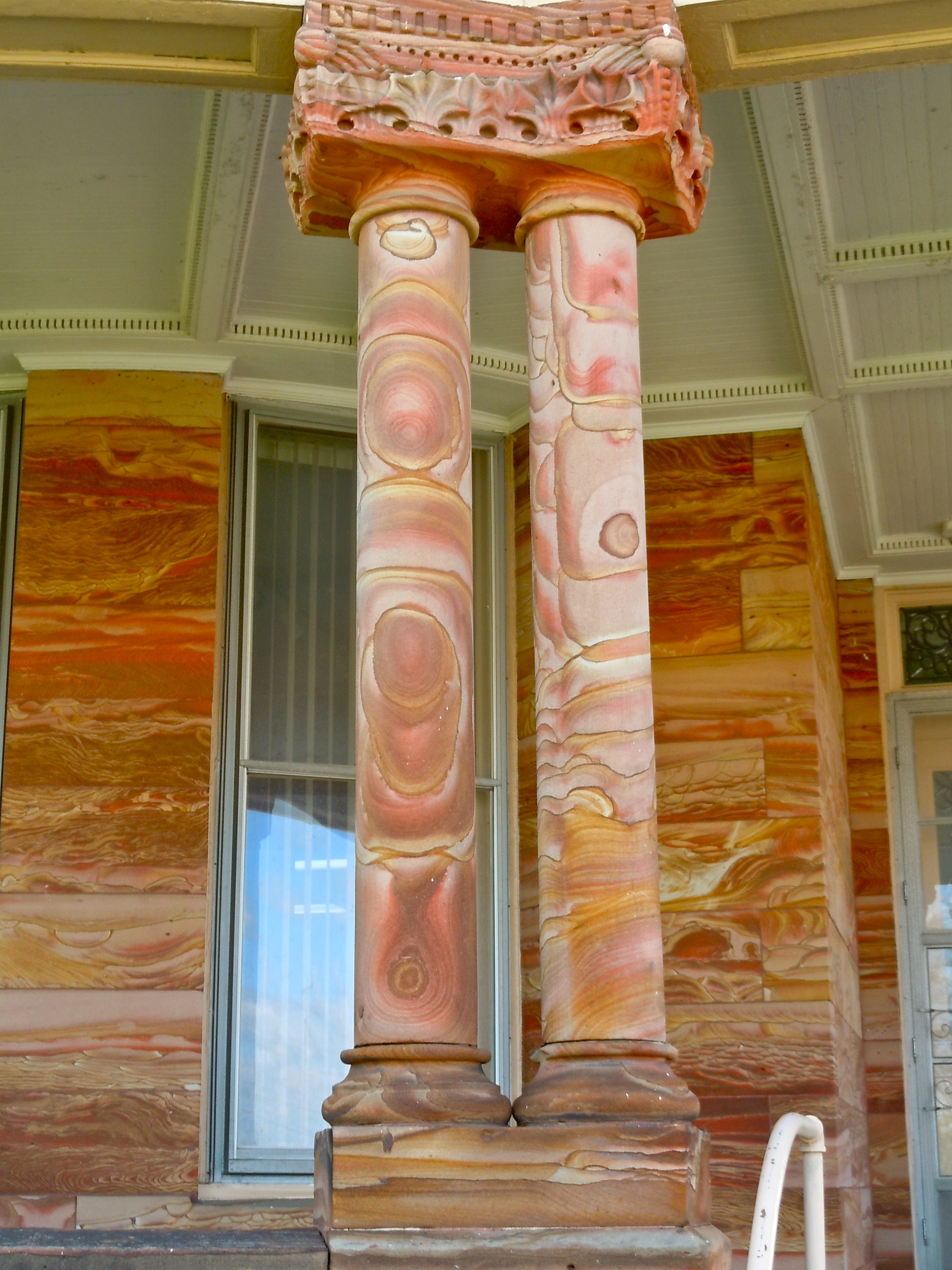 Stone columns on Martin Bushnell House on the NRHP since April 26, 1974. At 34 Sturges Ave., Mansfield, Richland county, Ohio.